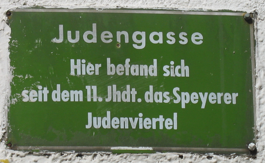 Speyer (GERMANY) The Jewish street